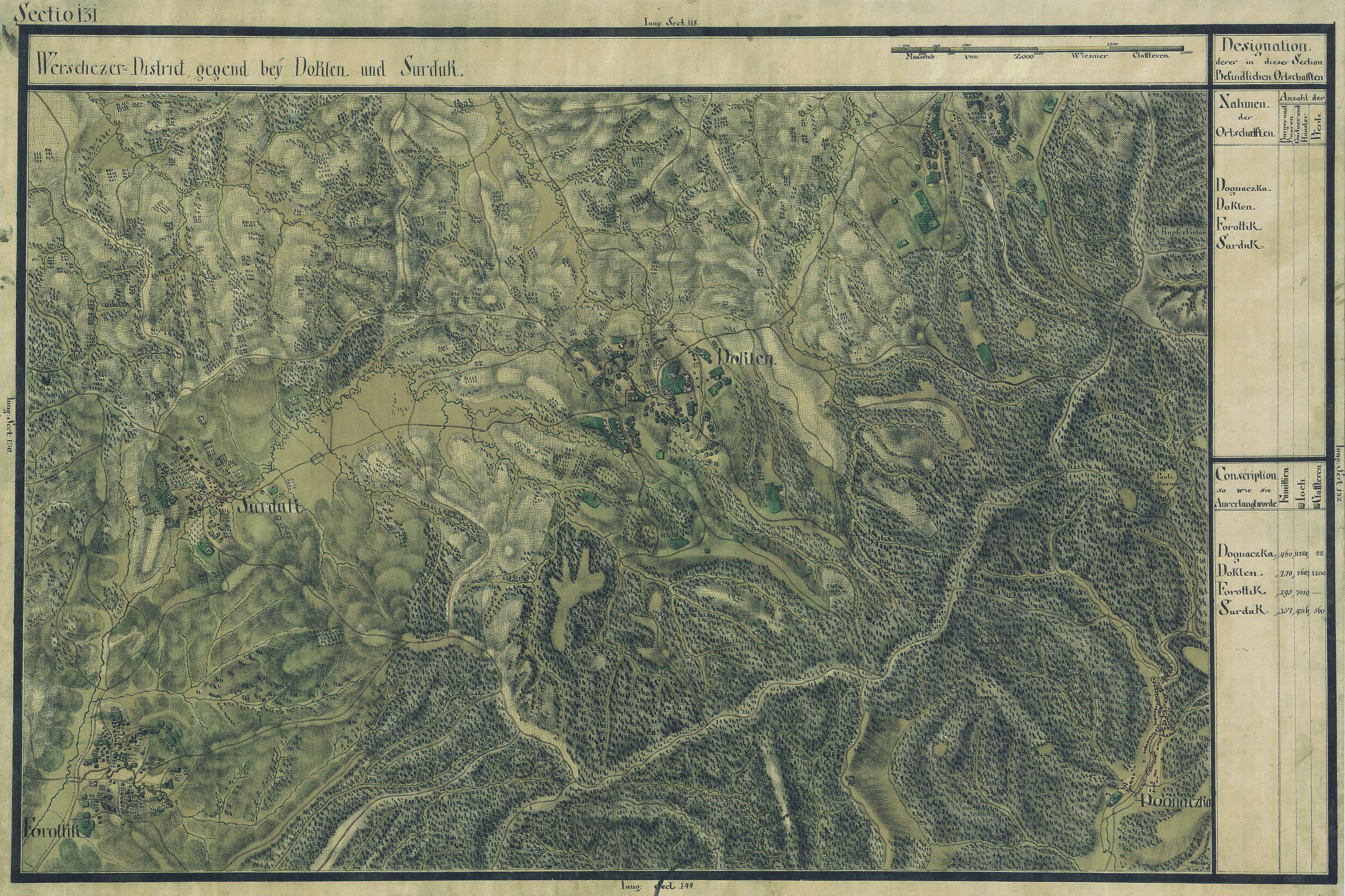 The Banat region in the cadastral maps: Josephinische Landesaufnahme, 1769-72. Josephinische Landaufnahme pg131